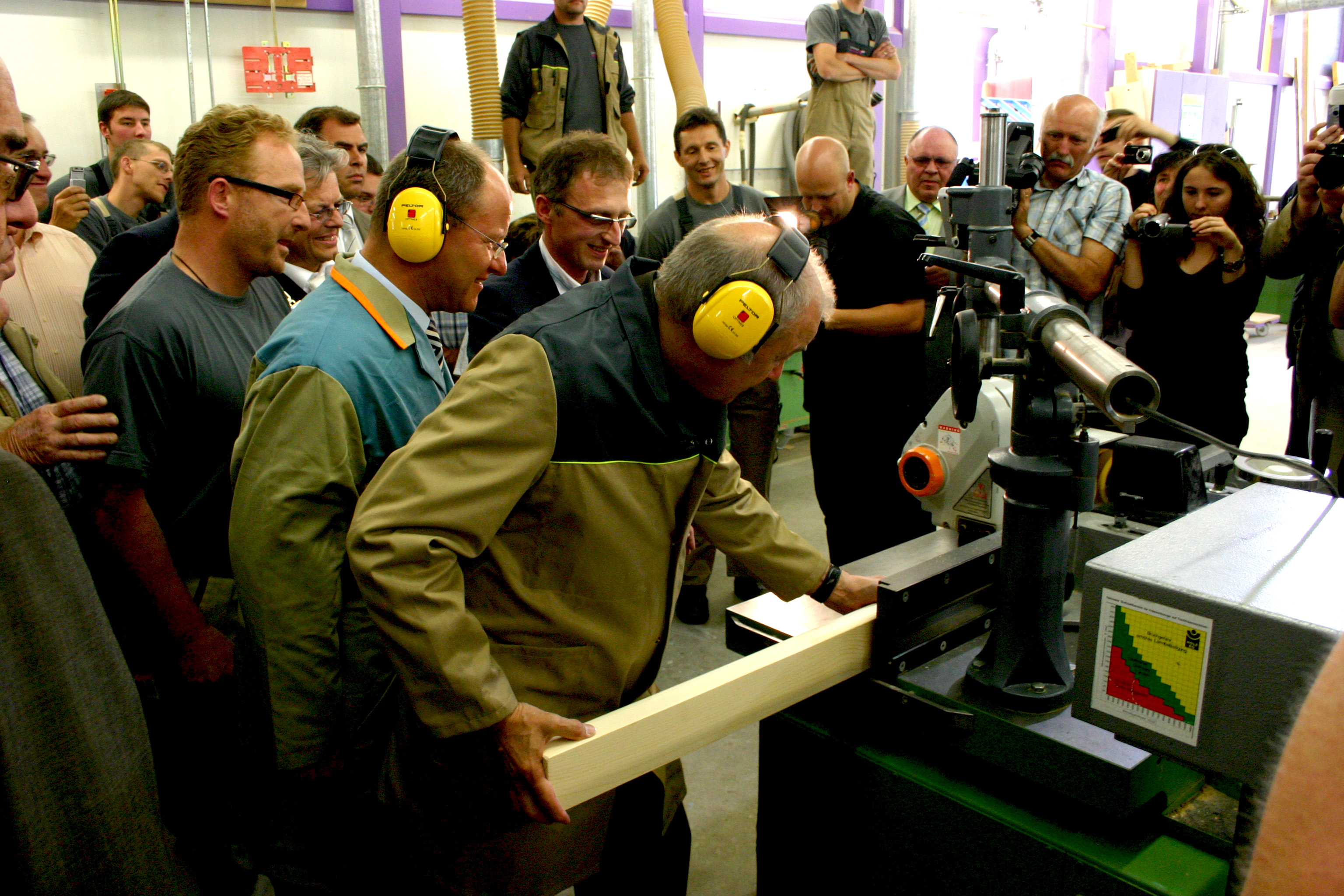 The Bavarian Prime Minister Günther Beckstein on a visit at companie in Mechlenreuth